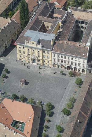 Local Government, Budapest, district 3, Hungary, aerial photography